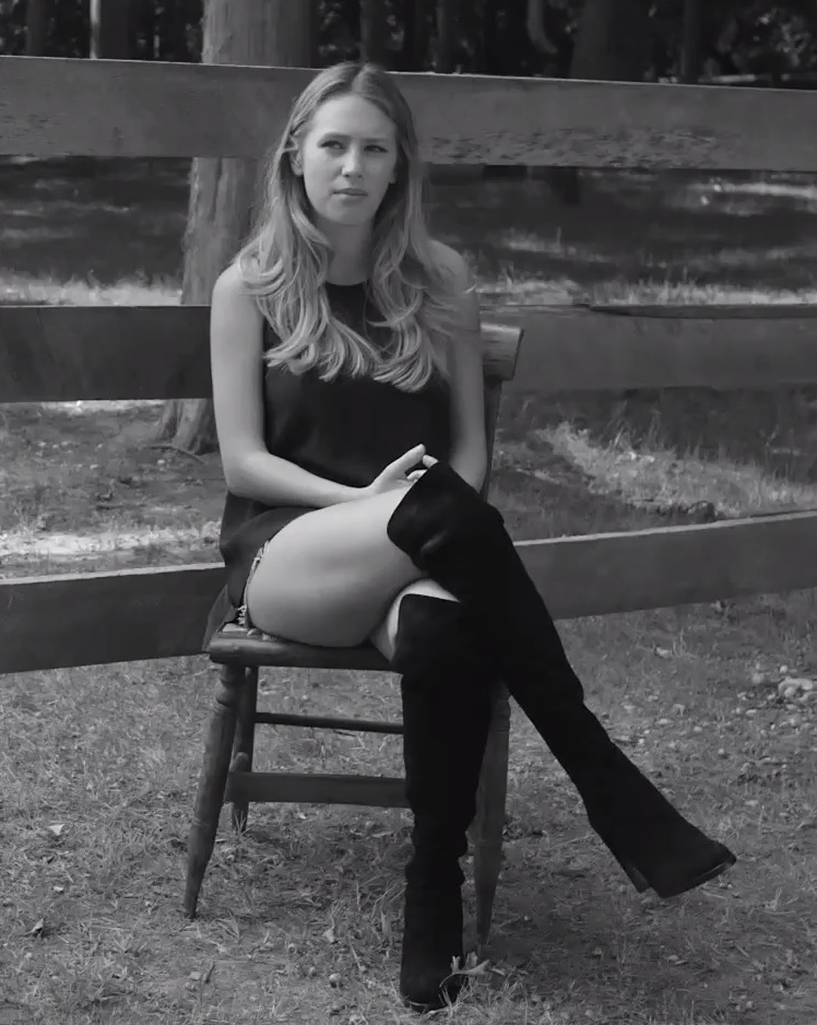 American actress and model Dylan Penn interviewed by German Interview Magazine about her work in "Rock Roll Ride" short film/advertisement for Stuart Weitzman shoes, directed by Julia Restoin Roitfeld. Her boots are from the short film.